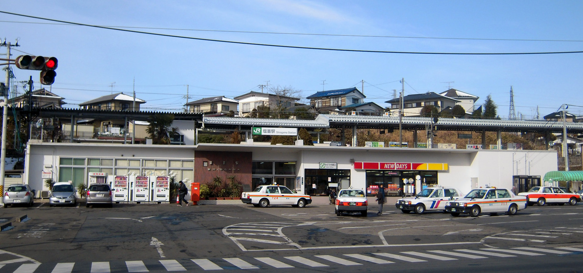 JR East Tohoku main line Shiogama station (Shiogama city,Miyagi pref,Japan)